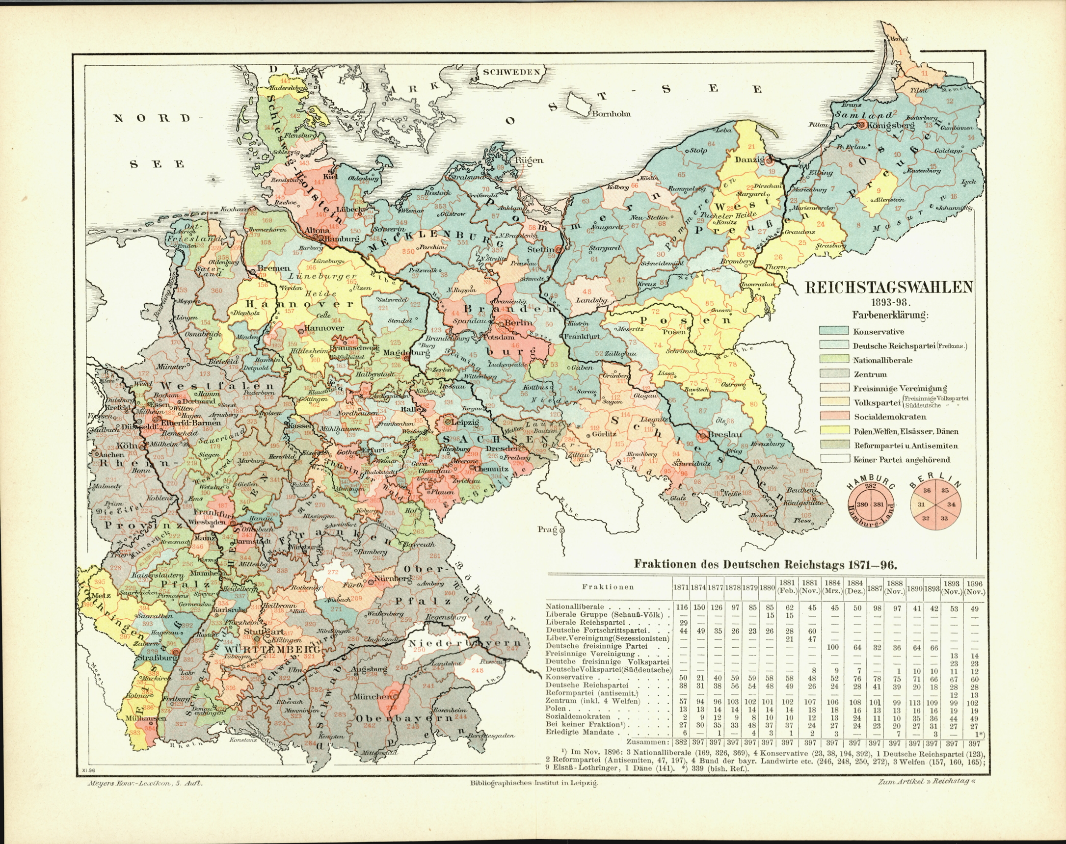 Results of the German federal election, 1893 accoring to constituencies in a contemporary map. A listing of the elected members of the Reichstag can be found here.